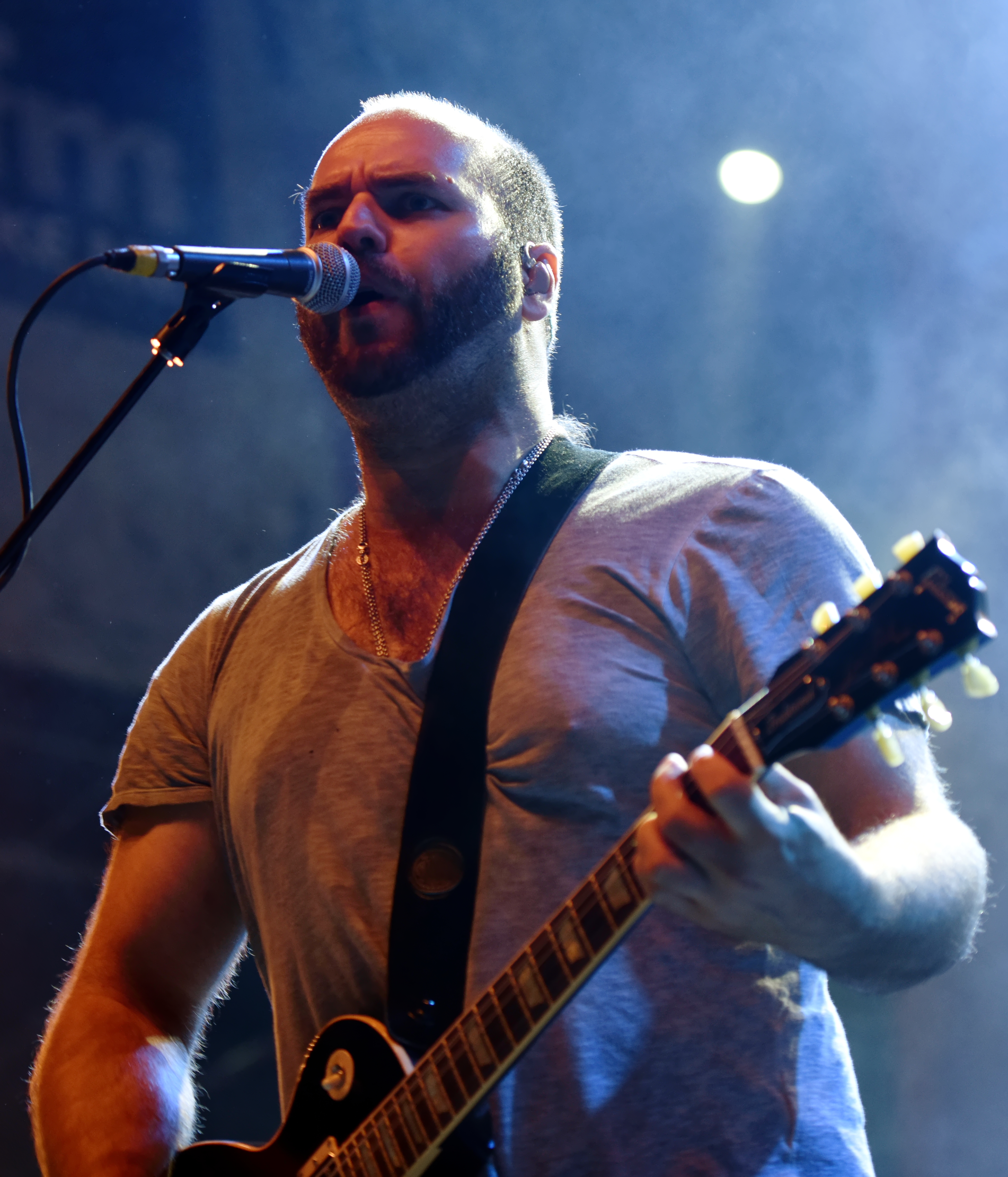 Guano Apes at the Open Flair festival in Eschwege, Germany, 2015.